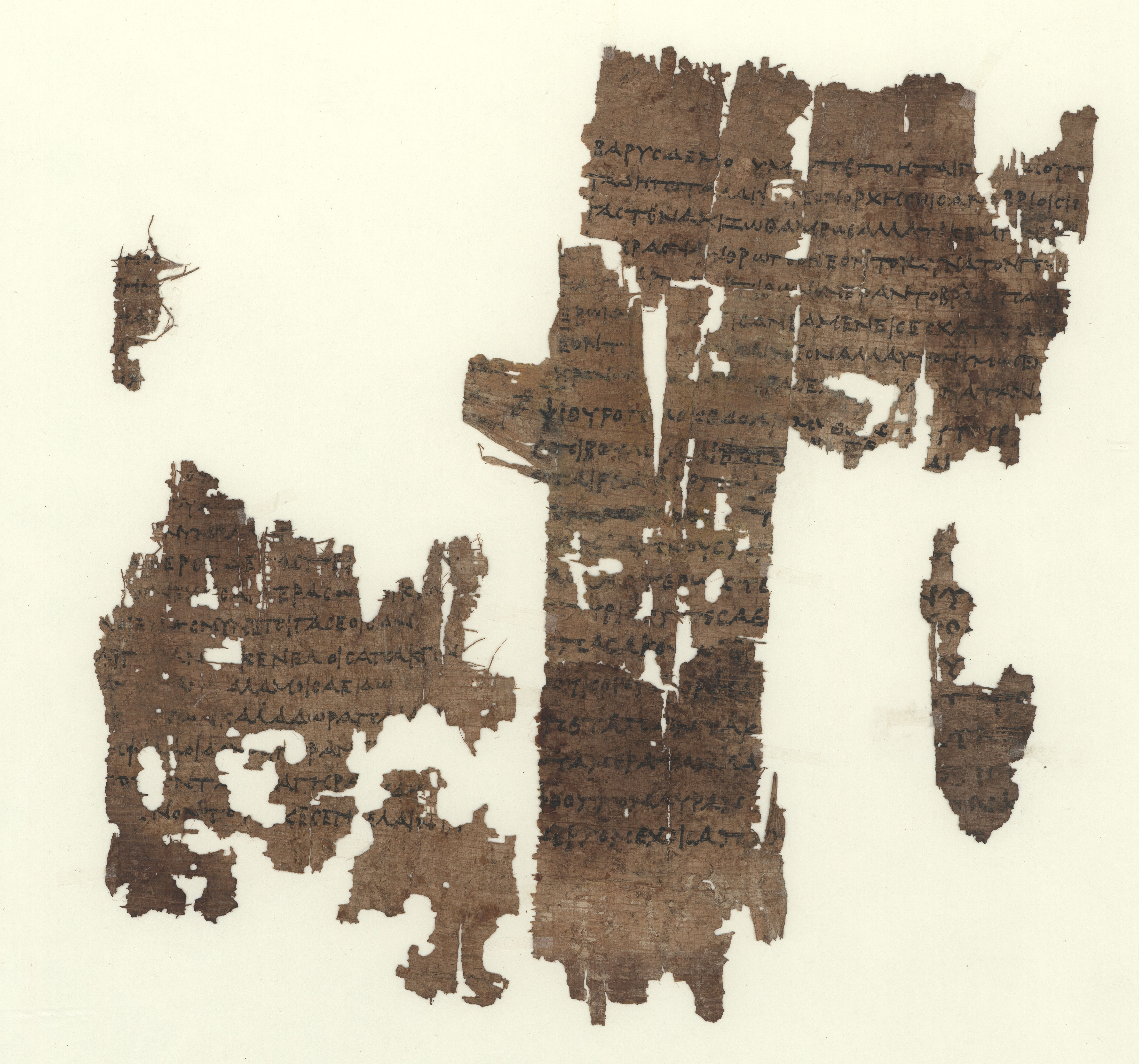 Saphhos' poem "An Old Age" (lines 9-20) LB 58. Papyrus from 3 cent. B.C. The exhibit from Altes Museum Berlin. Copy of Cologne exhibit (image available here.